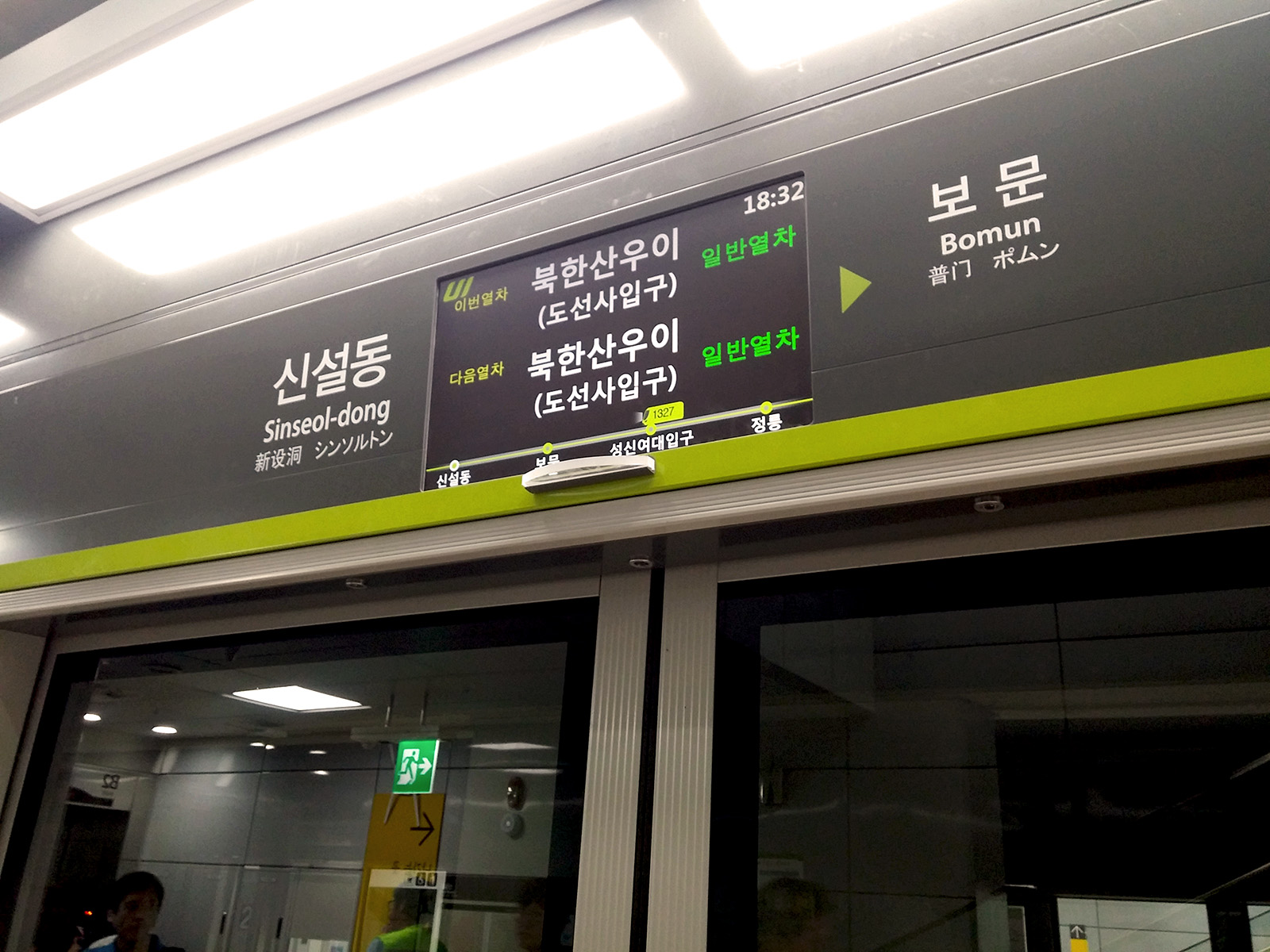 Seoul Subway Line 1, Seoul Subway Line 2, Ui LRT Sinseol-dong Station Screendoor